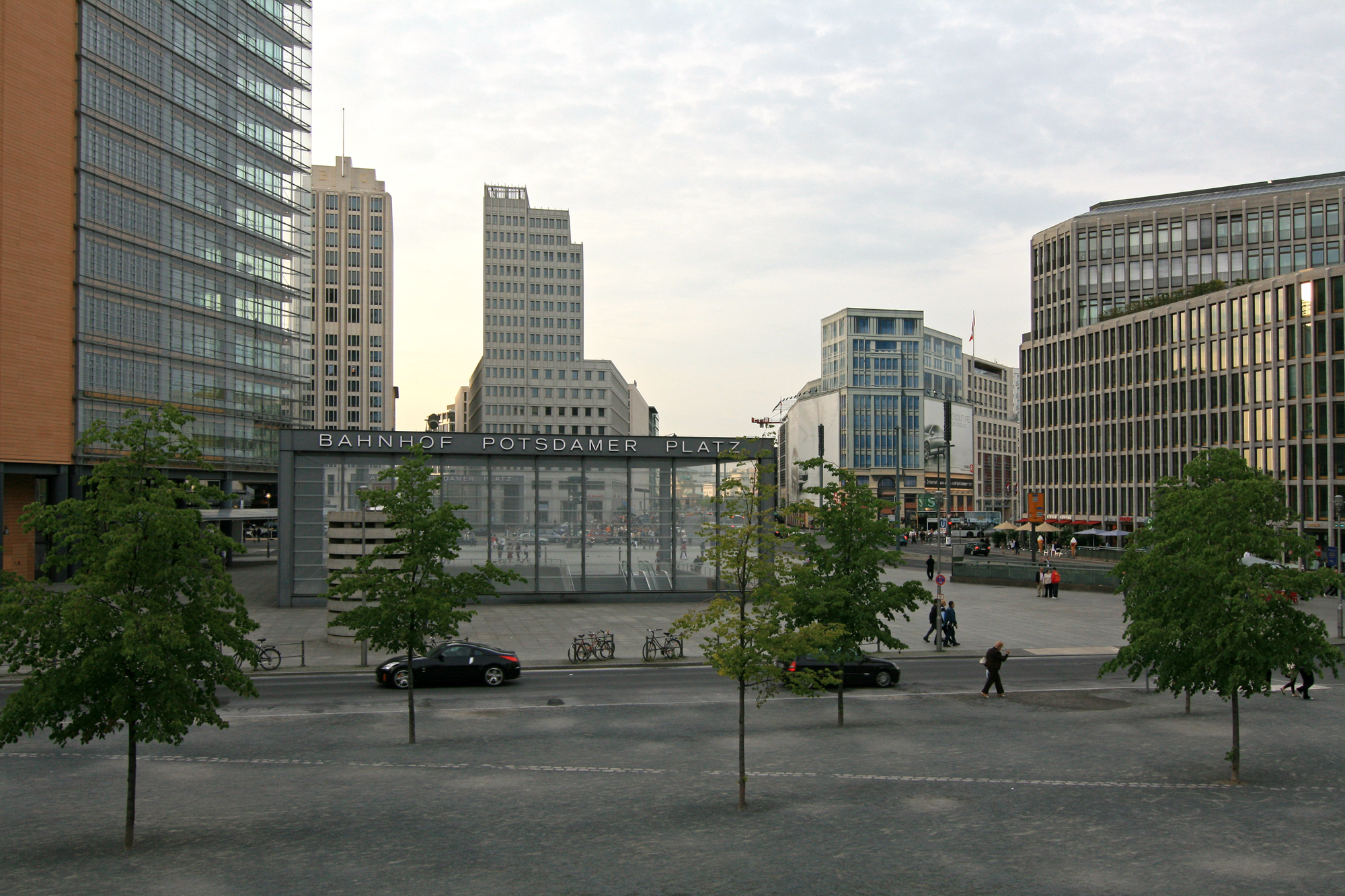 Potsdamer Platz, Berlin